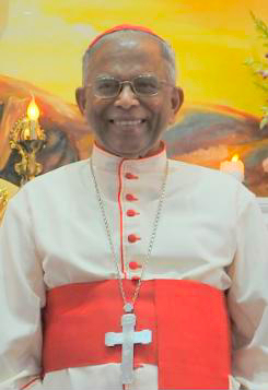 varkey vithayathil cardinal india